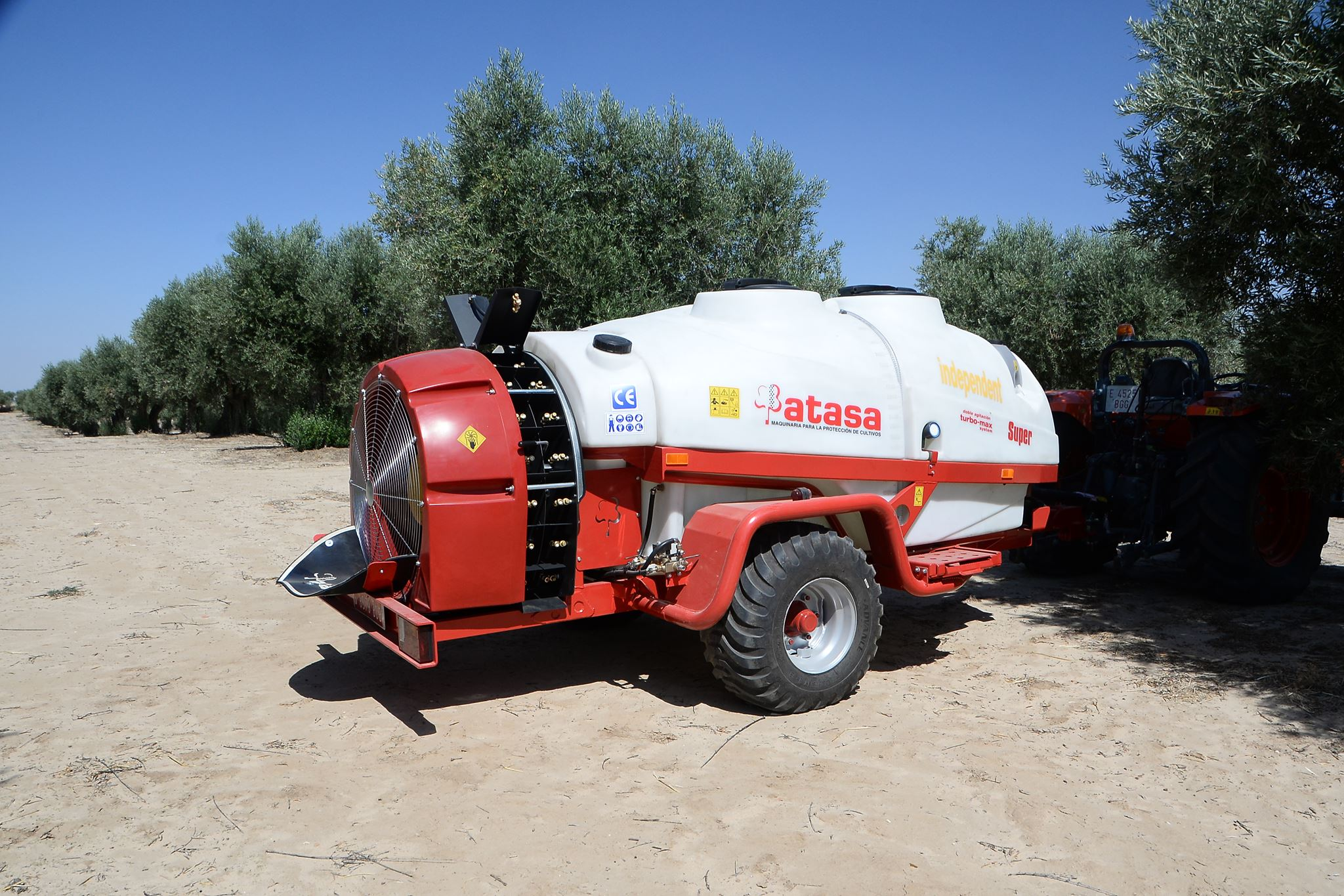 Pulverizadores para la protección de cultivos tipo arbolado.